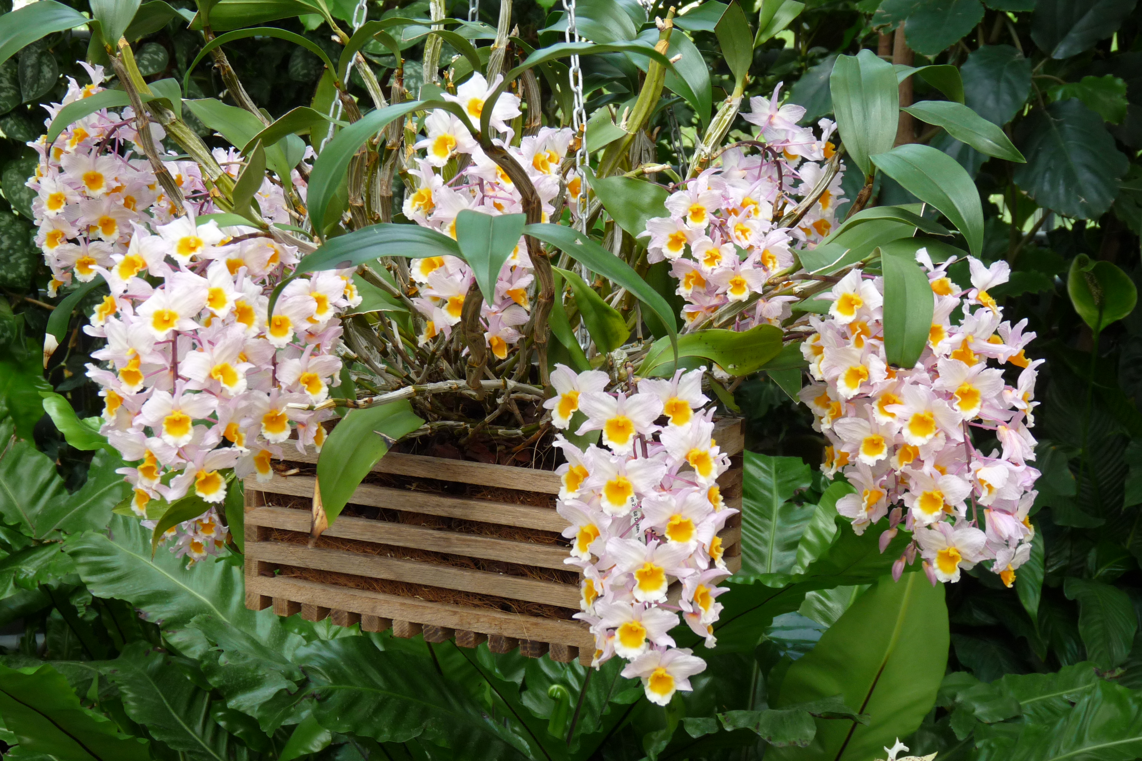 Dendrobium farmeri, orchid house in Łańcut, Poland